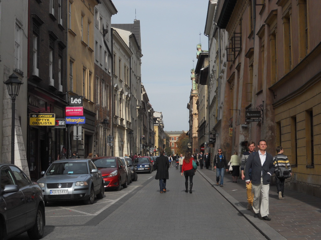 Szpitalna street on the Old Town in Kraków.